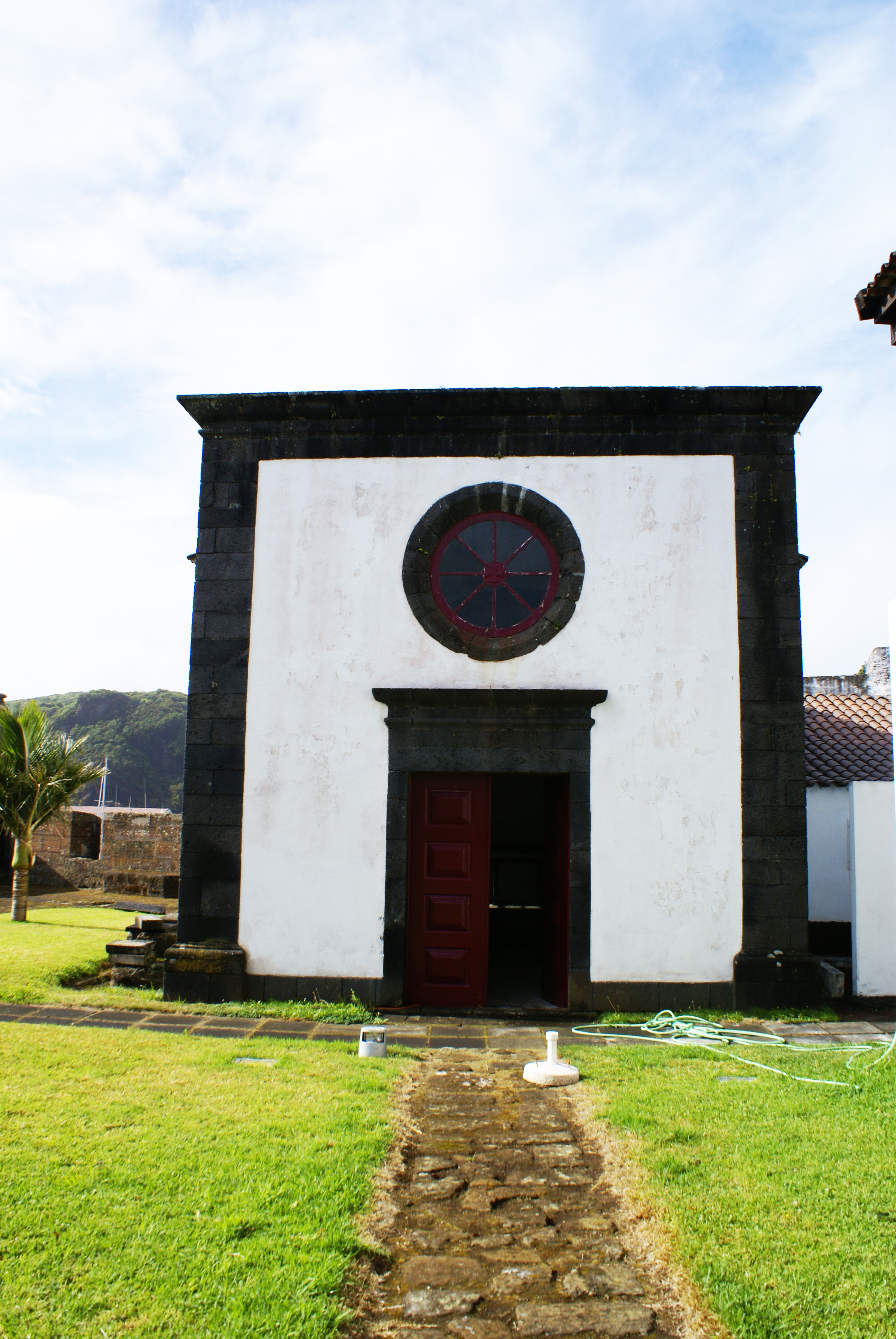 The front façade of the Chapel of Santo António, within the walls of the Fort of Santa Cruz, Angustías, Horta, Faial (Azores), Portugal